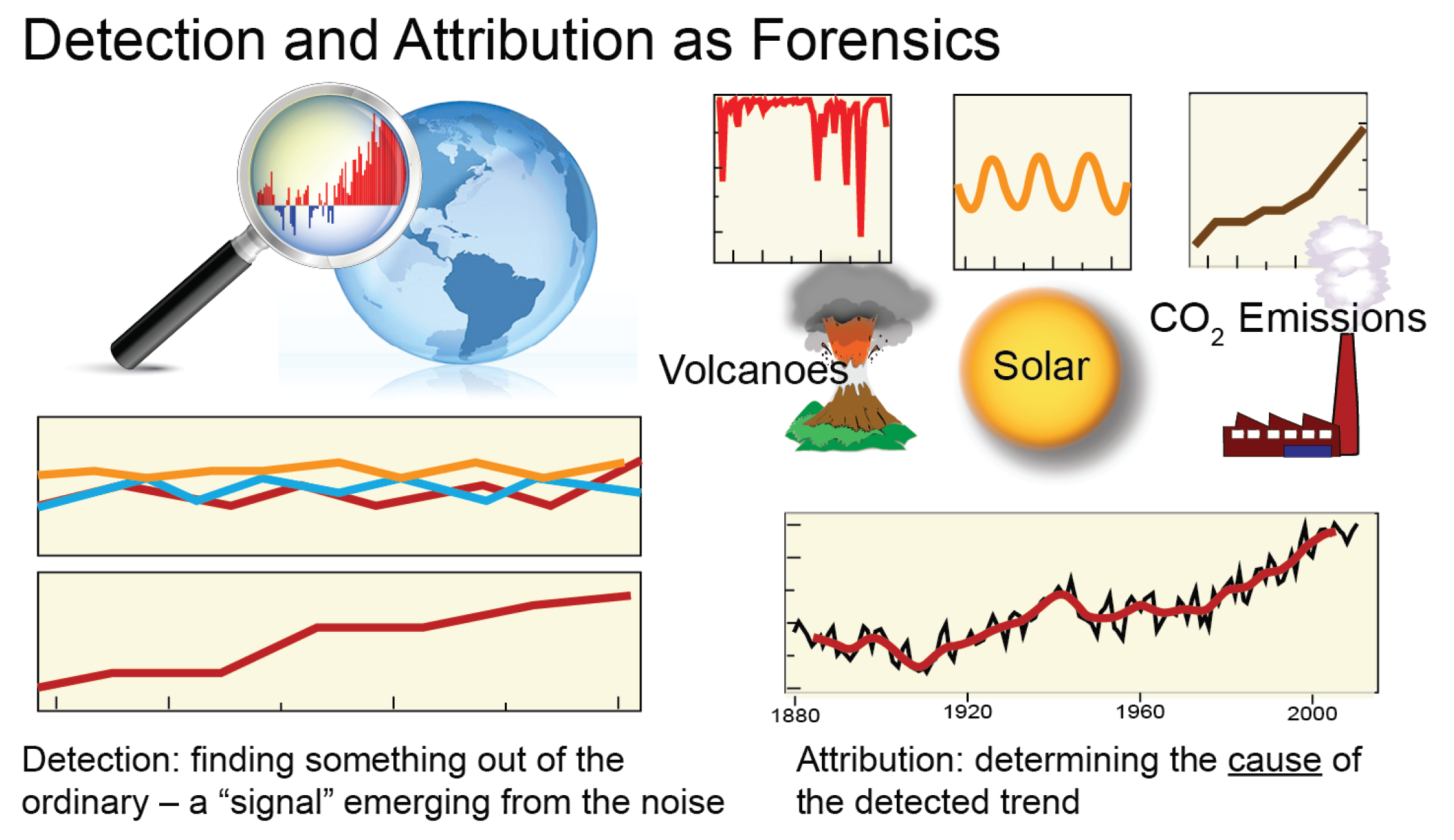 This diagram explains the difference between detecting changes in the climate system and attributing those changes to a particular cause. Detection involves identifying a climate trend or event (for instance, long-term surface air temperature trends, or a particularly extreme heat wave) that is strikingly outside the norm, including natural variations in the climate system. Similar to conducting forensic analysis on evidence from a crime scene, attribution involves considering the possible causes of an observed event or change, and identifying which is responsible for the observed behaviour. In detection and attribution, the natural factors considered usually include changes in the Sun’s output and volcanic eruptions, as well as natural modes of variability such as El Niño and La Niña. Human factors include the emissions of heat-trapping "greenhouse" gases and particulates as well as clearing of forests and other land-use changes. This image description is an edited quote from the cited public-domain source (Walsh et al., 2013).